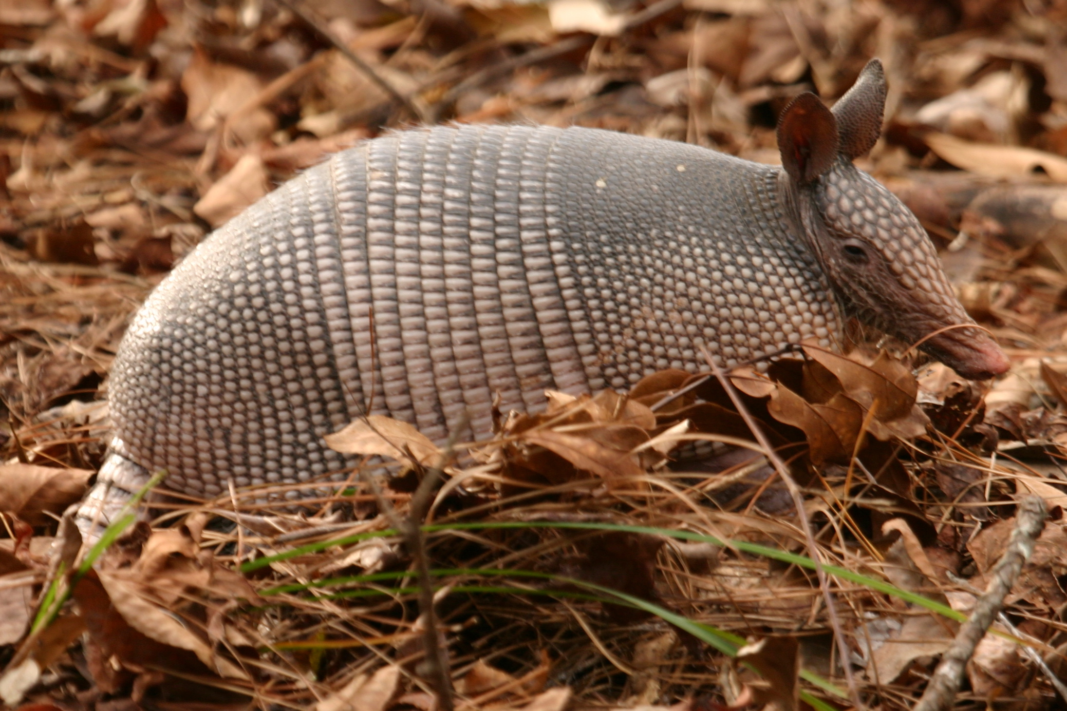 Nine-banded Armadillo located in Silver River State Park, Fl.